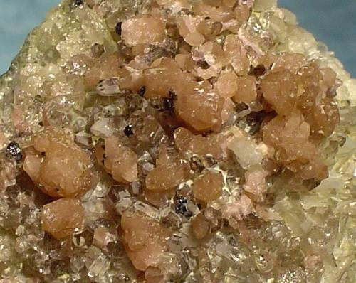 Monazite-(Ce) Locality: Siglo Veinte Mine (Siglo XX Mine; Llallagua Mine; Catavi), Llallagua, Rafael Bustillo Province, Potosí Department, Bolivia (Locality at ) Size: 4.5 x 3.9 x 2.2 cm. Monazite gets its name from the Greek word "monazein", which means "to be alone", in allusion to its isolated crystals and their rarity when first found. Monazite is usually found in granitic pegmatites, but these crystals are found in hydrothermal tin veins, where there is an absolute absence of Thorium (usually a trace element in Monazite). This is a remarkable, very well crystallized, ridiculously rare, specimen consisting of sharp, lustrous, translucent, orange-pink, twinned crystals on Monazite-(Ce) measuring up to 4 mm on Quartz crystal matrix. These twins are some of the most distinct and impressive twinned Monazite crystals I have seen from Bolivia. The crystals actually perform a color change in different lighting ranging from orange-pink to almost colorless depending upon the light source. This piece is from the same mine for which this material was discovered along the Contacto and San Jose veins in this mine and was first described by Sam Gordon and Mark Bandy.